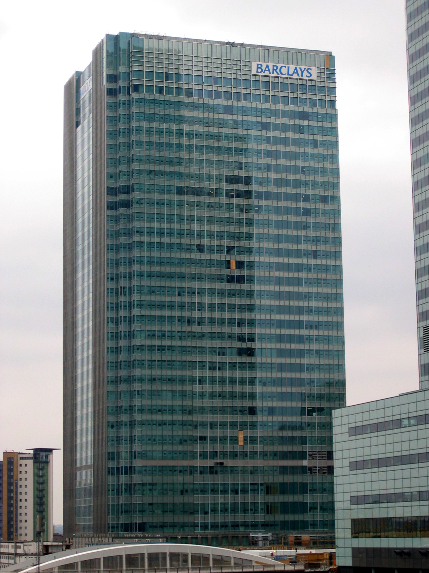 Barclays Bank HQ, Docklands, London. Taken by C Ford, March 04